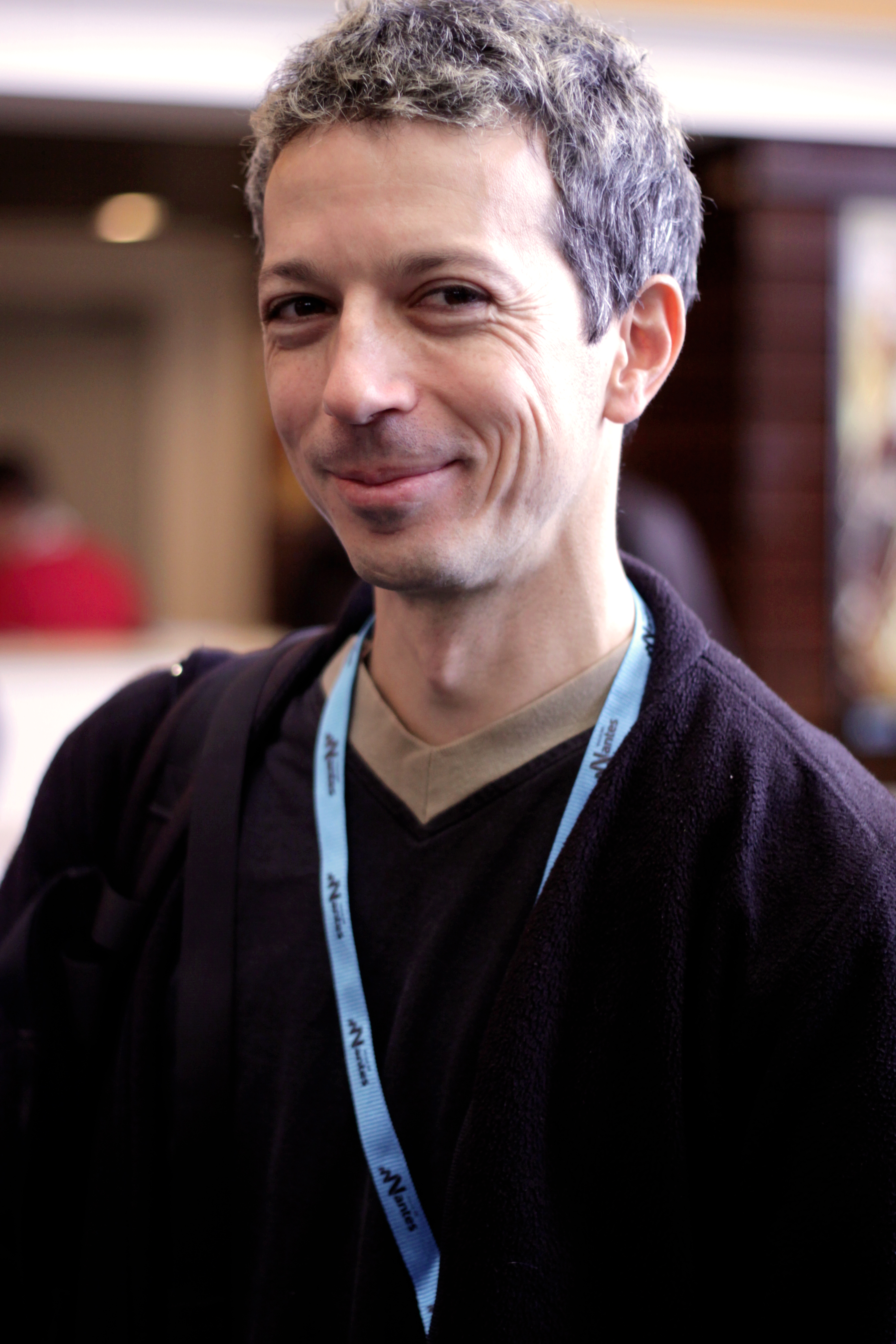 The French video game creator Éric Chahi at Utopiales 2011 in Nantes (France).